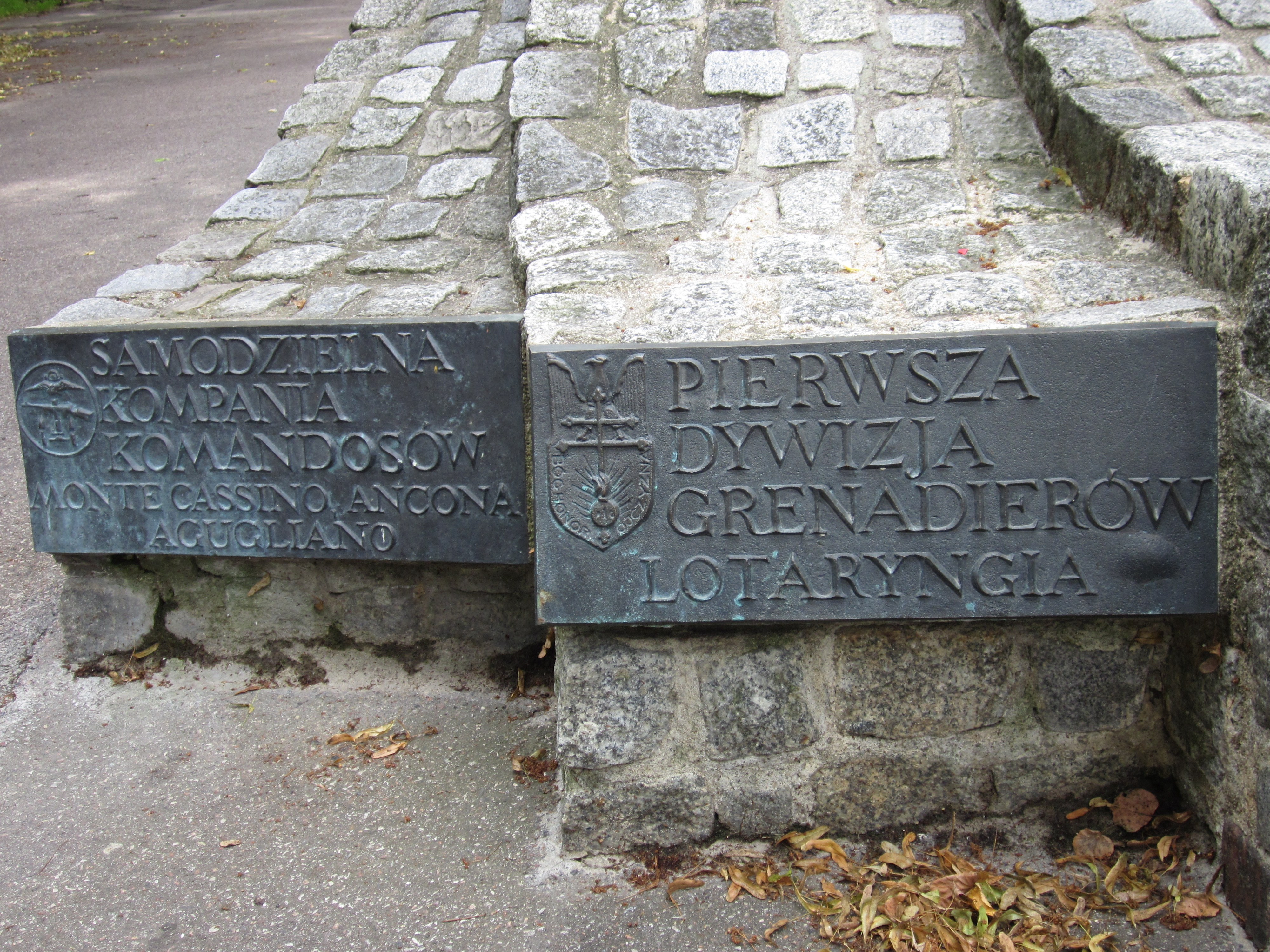 Epitaphs on the monument in Białystok - First Grenadier Division (Lorraine) and Independent Commando Company (Monte Cassino, Ancona, Agugliano).